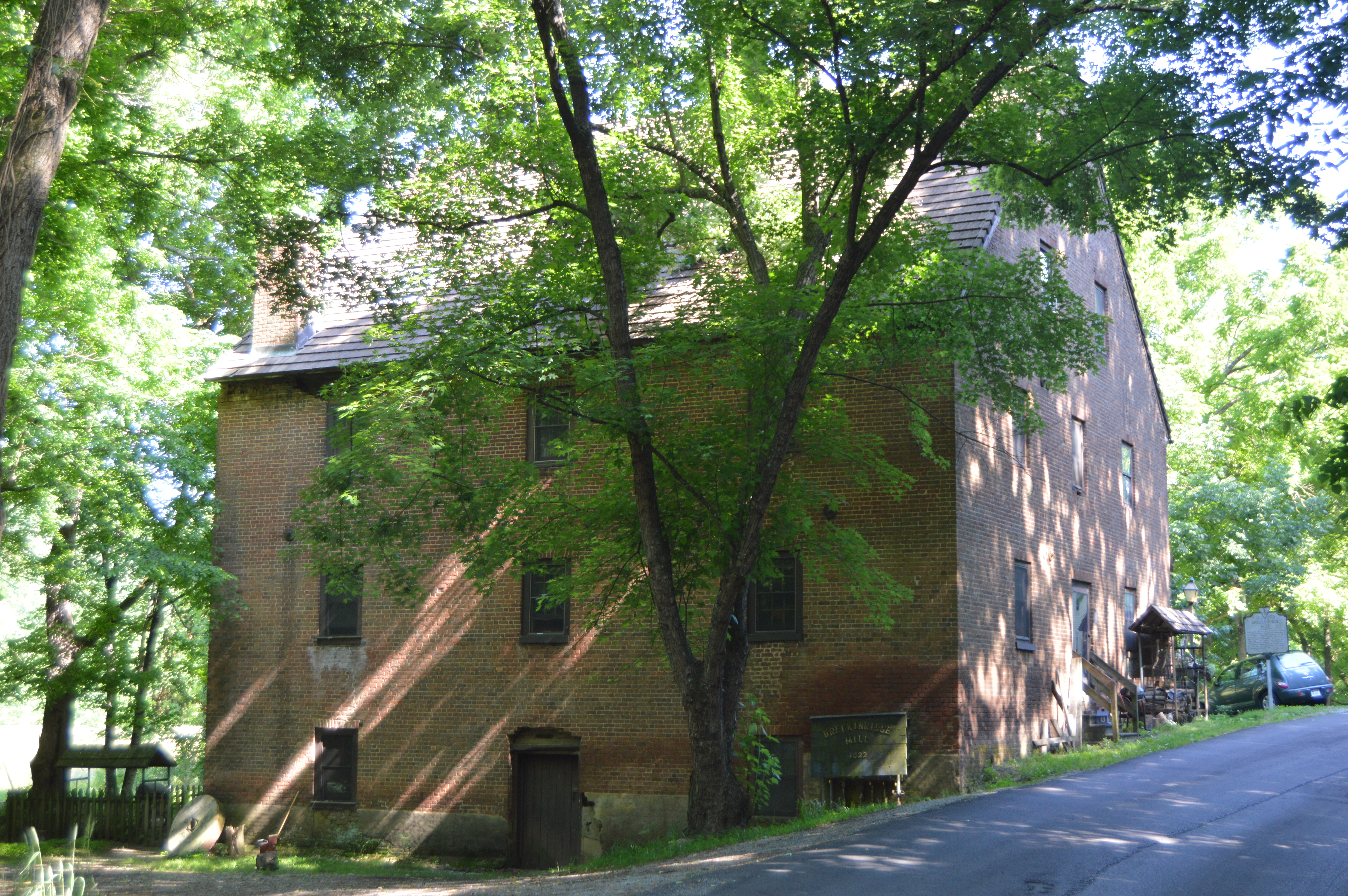 Northern side and western end of the Breckinridge Mill, located on Breckinridge Mill Road west of Fincastle in Botetourt County, Virginia, United States. Built in 1822, it is listed on the National Register of Historic Places.